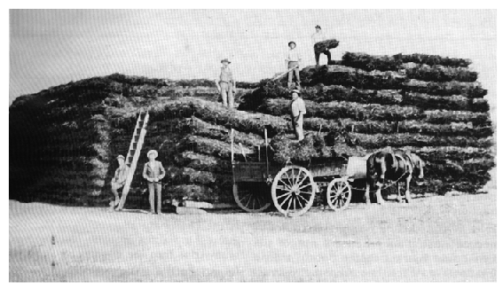 "Seen here is tons of acacia pycnantha bark being collected for export or use in the tanning industry from the Mt Lofty ranges SA, in some parts this along with general deforestation led to once tree covered hills becoming brown bare grasslands, as many still are today in some parts of SA"